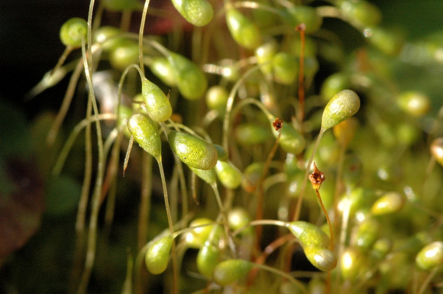 Funaria hygrometrica from Commanster, Belgian High Ardennes .